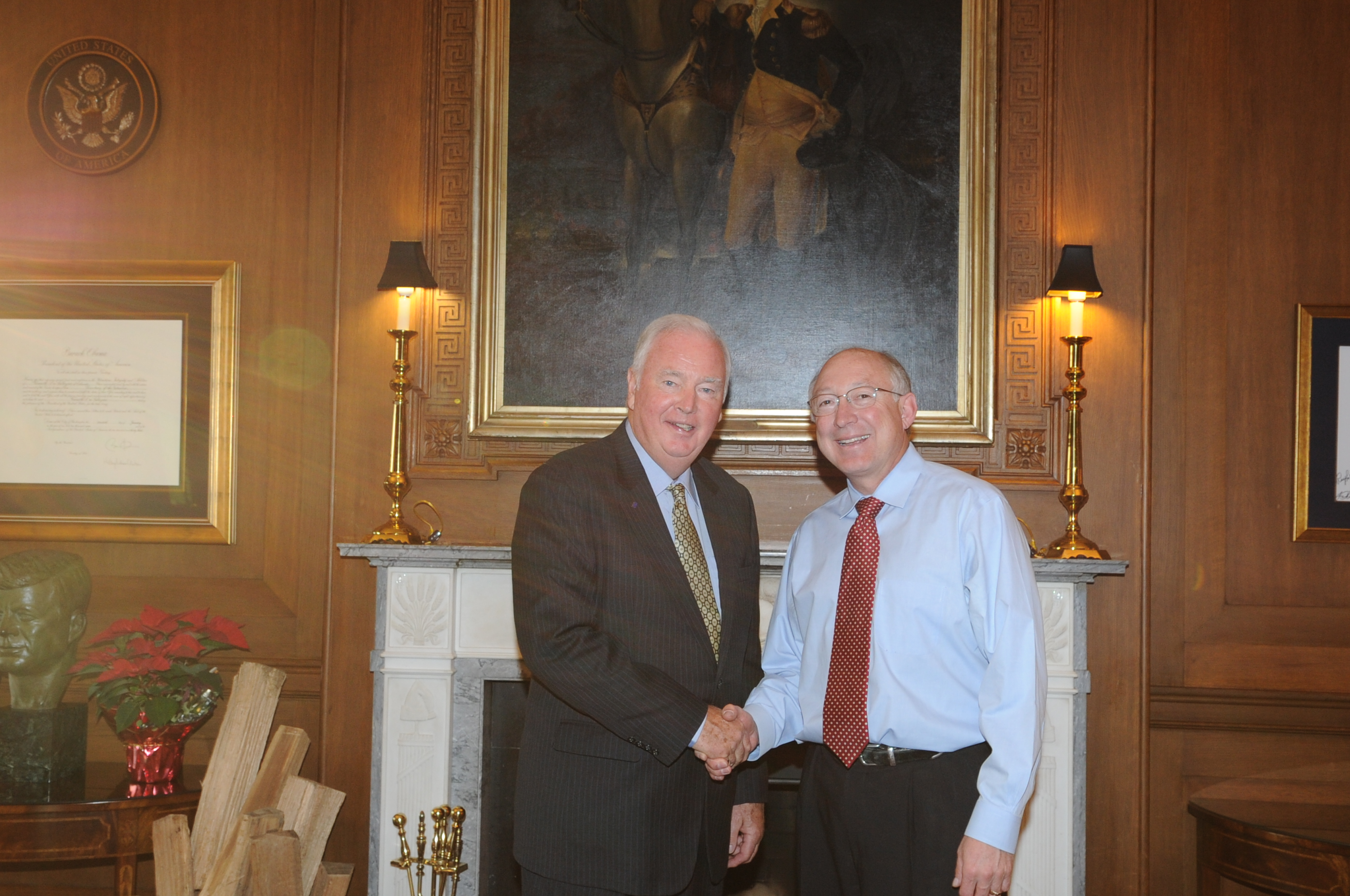 Secretary Ken Salazar [with former] Alaska Governor Frank Murkowski, [at Interior headquarters, Washington, D.C.] - 1/6/2011